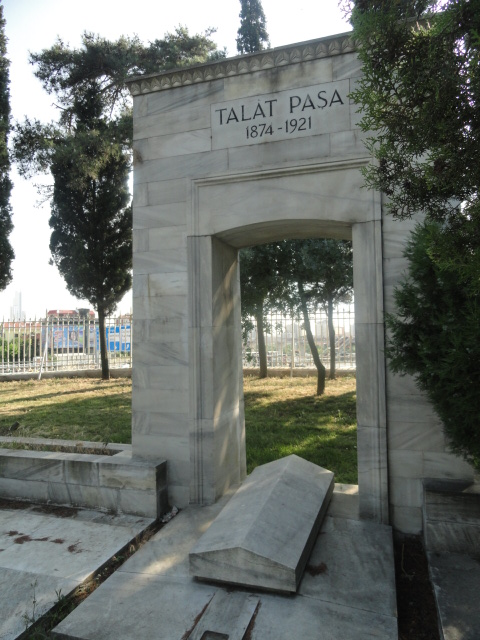 Grave of Talaat Pasha (1874-1921) in Istanbul Abide-i Hurriyet Cemetry